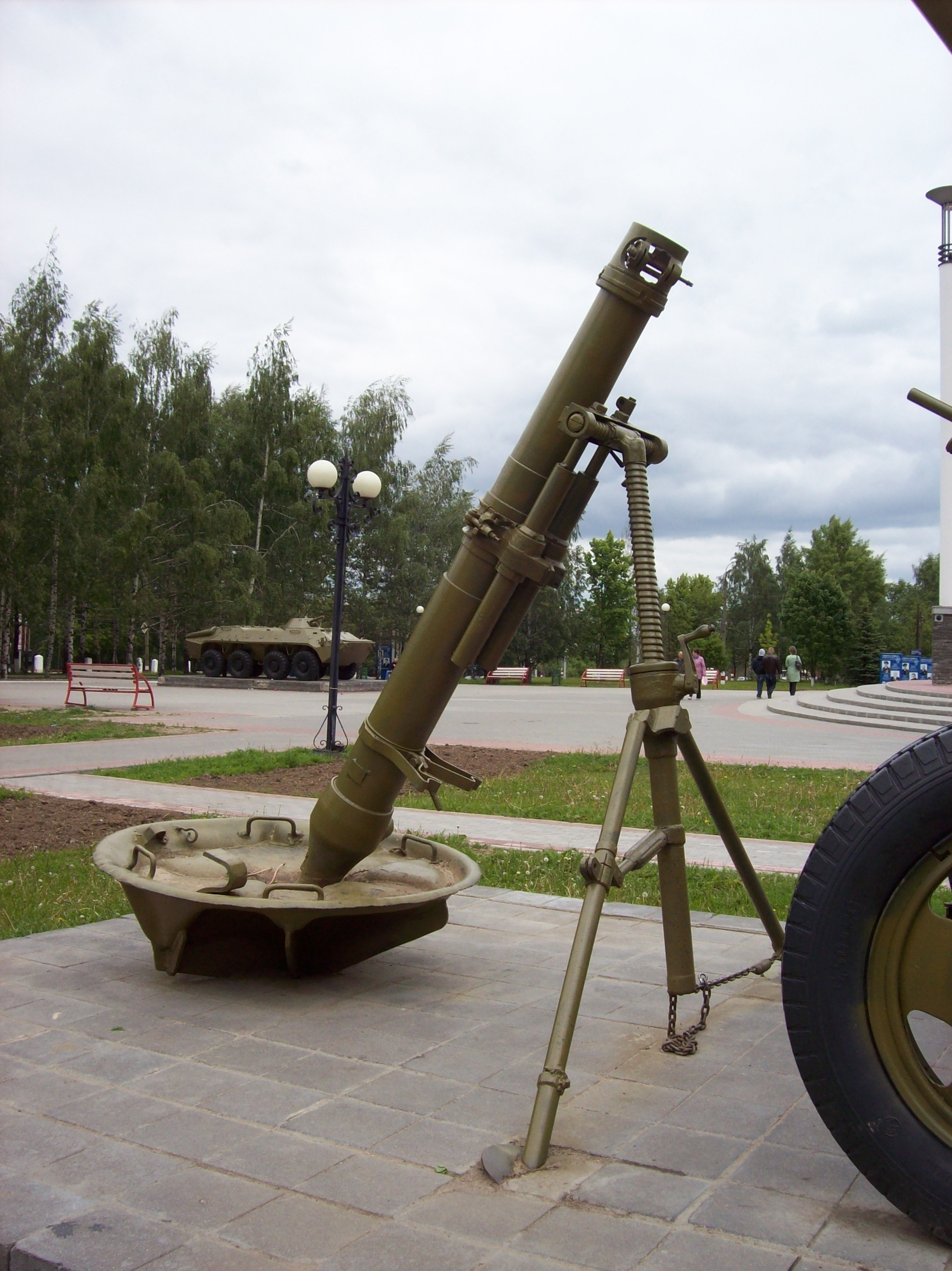 120-millimetre_calibre_mortar